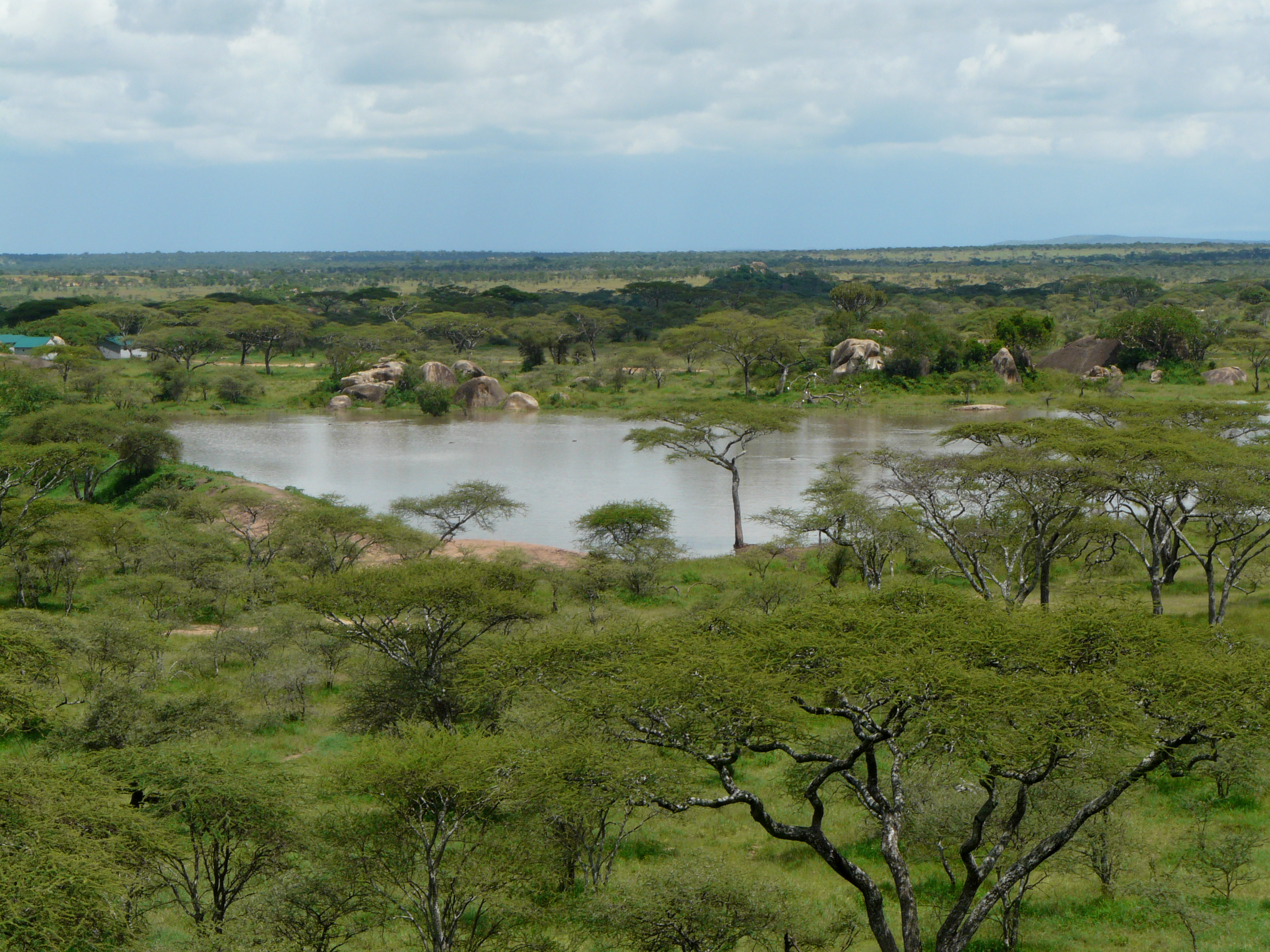 Seronera